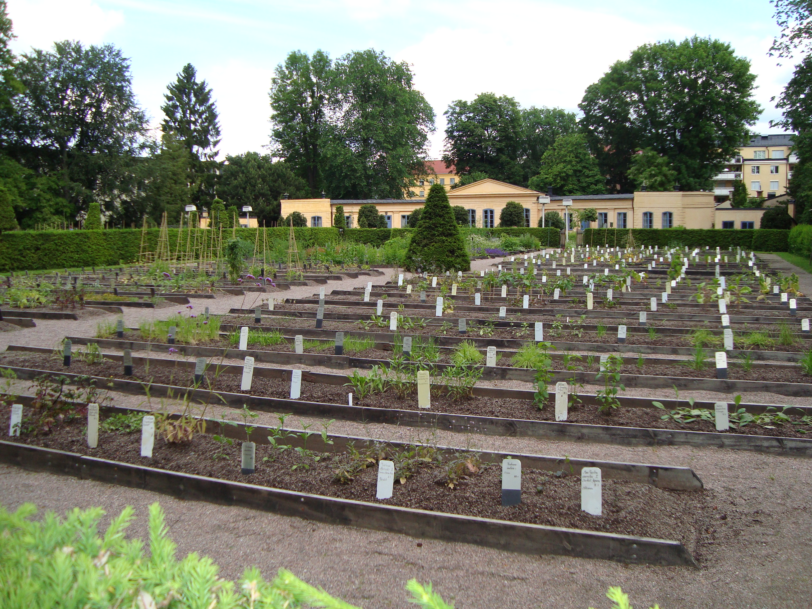 Carl von Linné's garden, Uppsala, Sweden